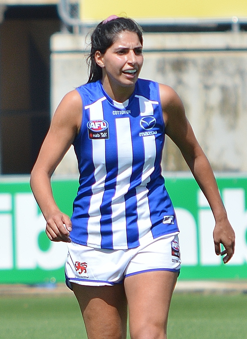 Vivien Saad North Melbourne with during the round 3, 2020 AFL Women's match against Richmond at Ikon Park.